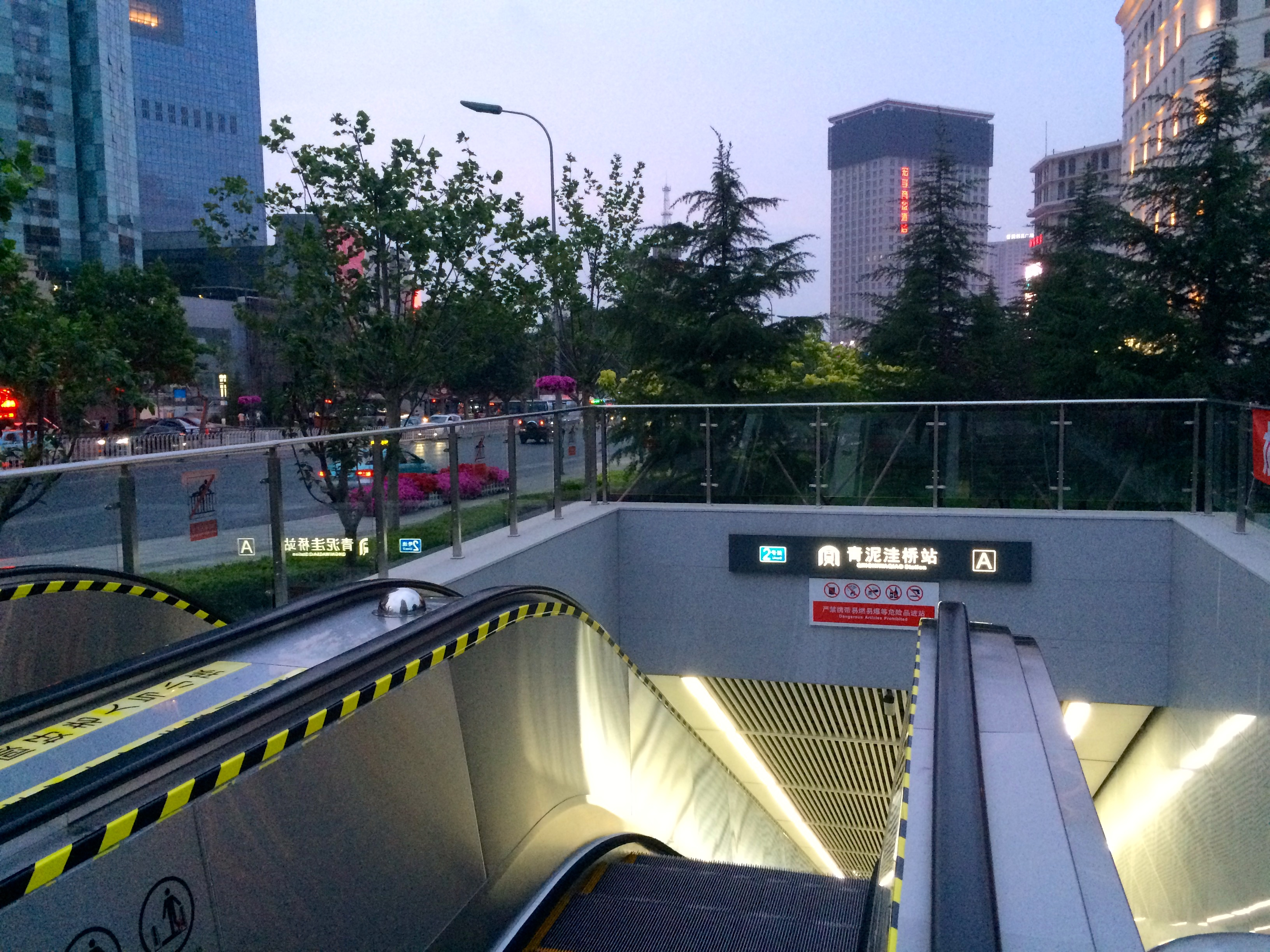 Dalian Metro Qingniwaqiao Station, Dalian, China